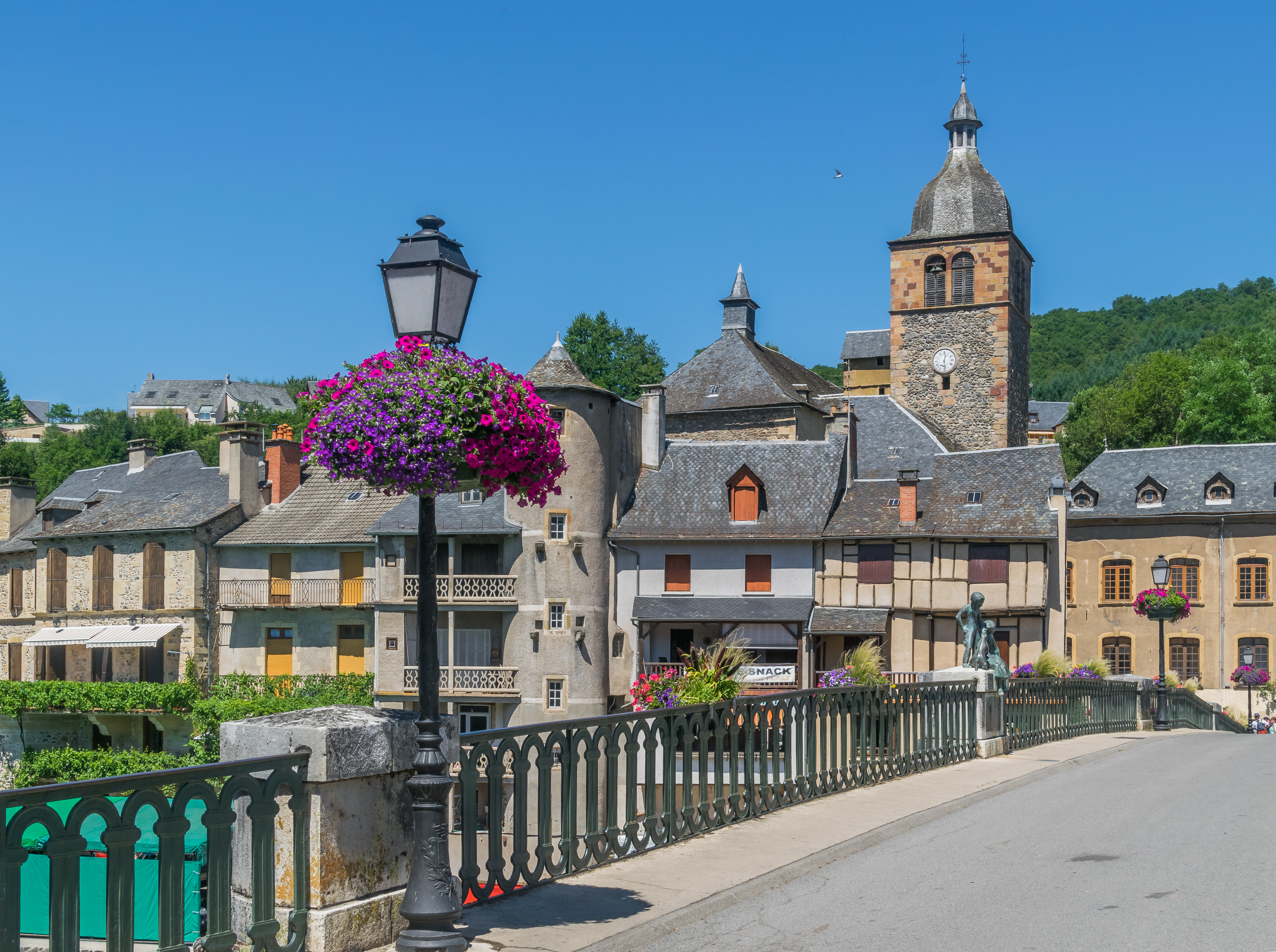 Church of Saint-Geniez-d'Olt, Aveyron, France .